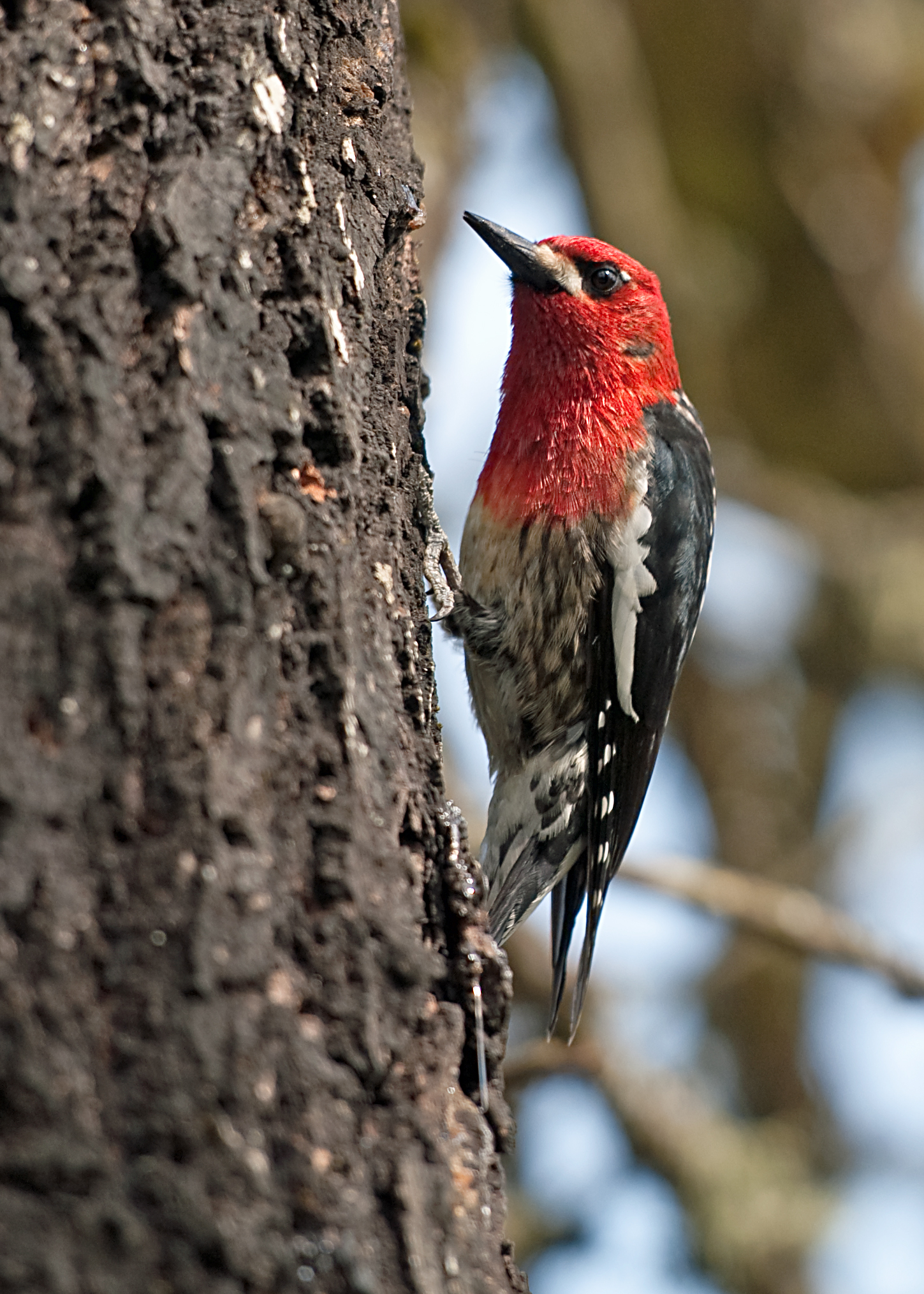 Sphyrapicus ruber ruber